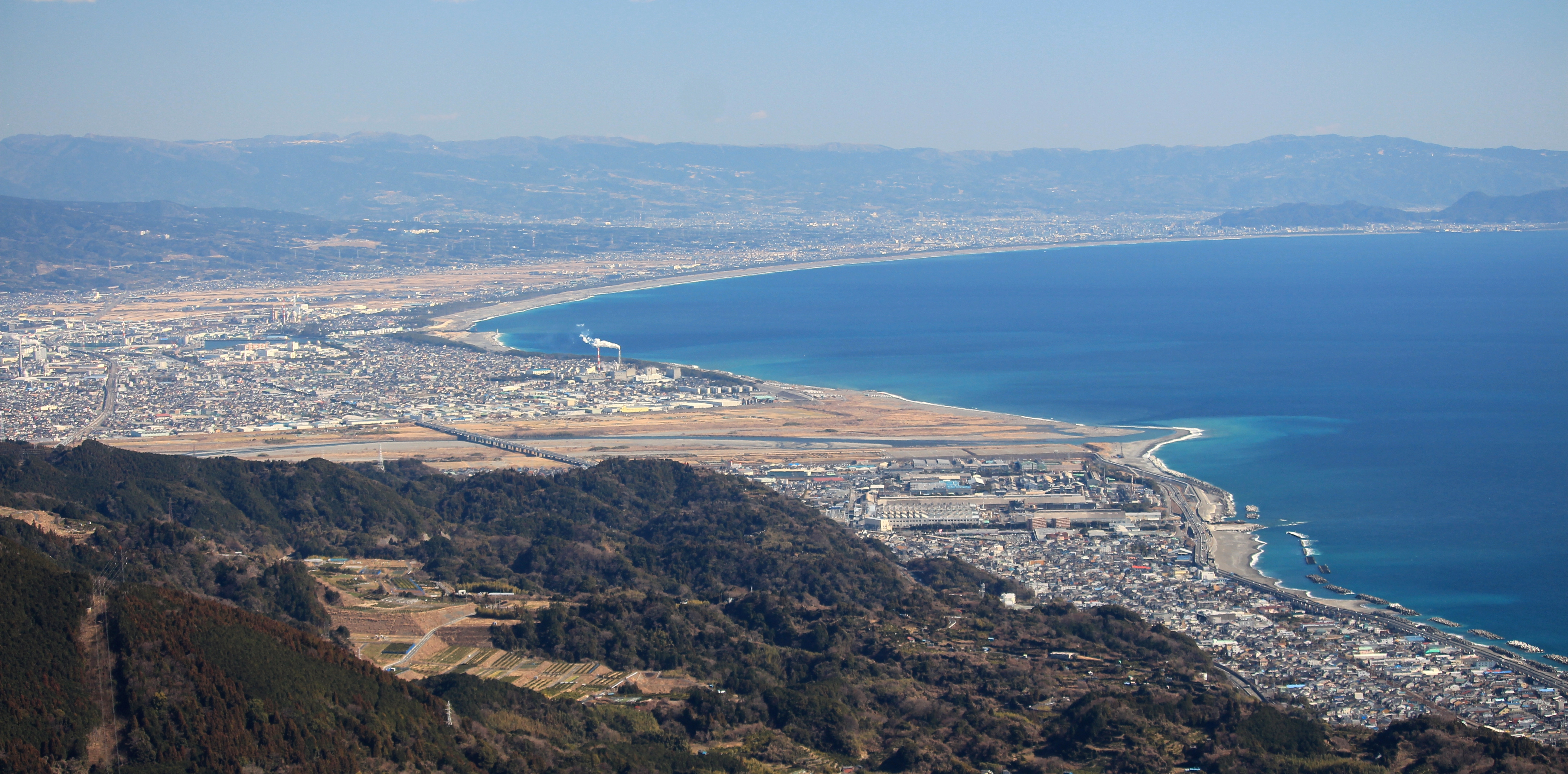 Suruga Bay seen from Mount Hamaishi in Shizuoka prefecture, Japan.